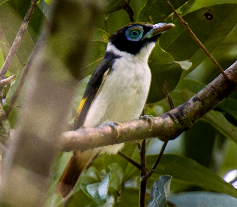 Wattled Broadbill (Sarcophanops steerii)